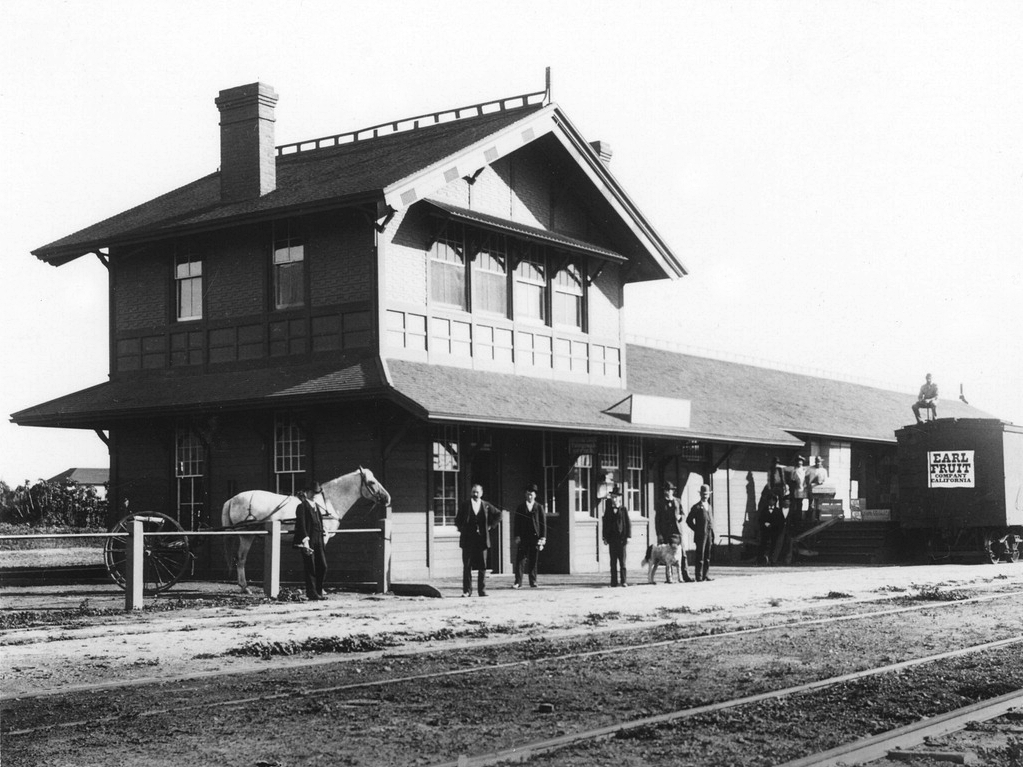 Whittier's Southern Pacific Railroad Station on Bailey in 1896. The Depot is now located on Greenleaf Ave. A Earl Fruit Company traincar can be seen on the leftside of the photograph.